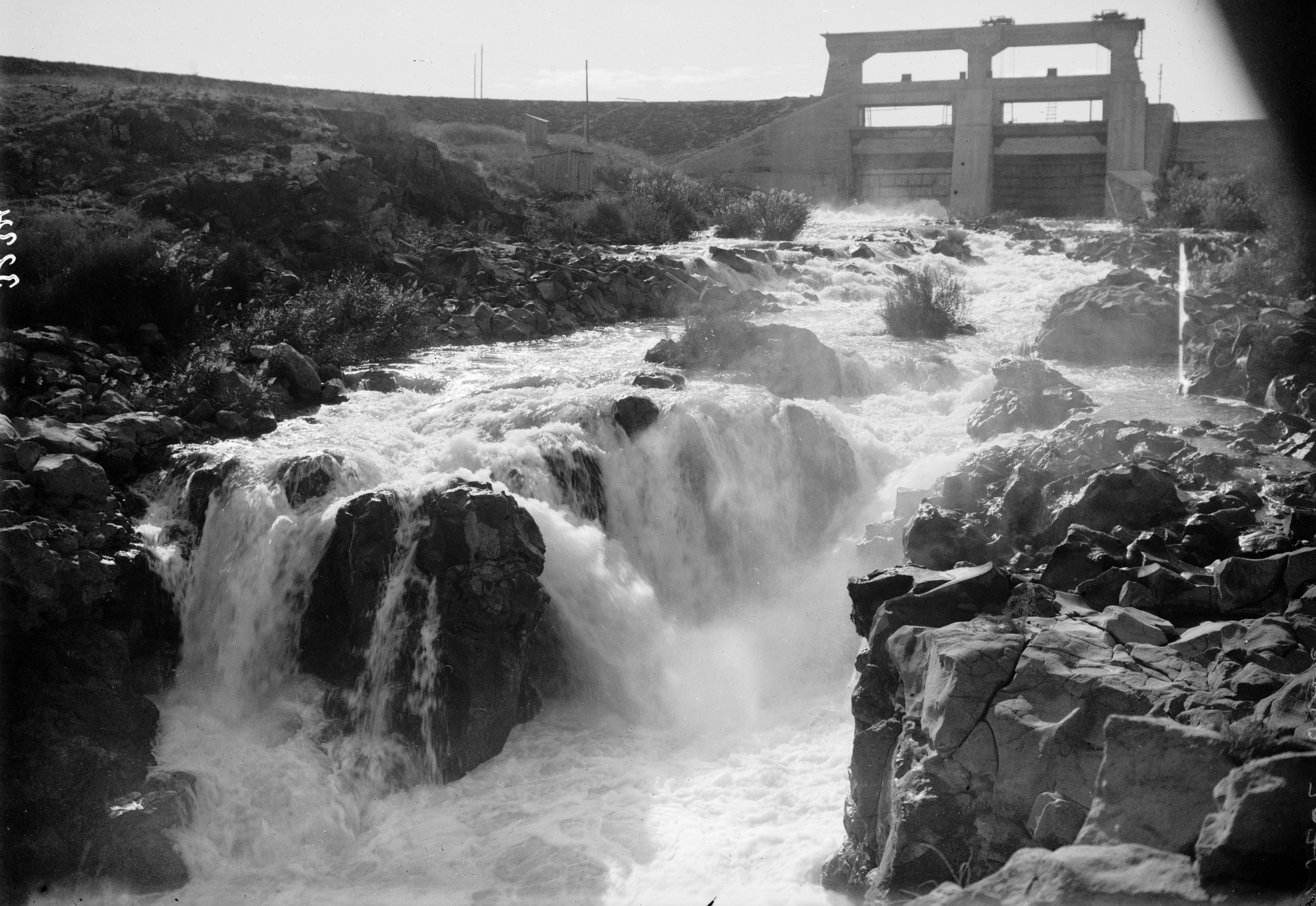 The Palestine Electric Corporation power plant. The P.E.C. Yarmuk reservoir sluice gates. Exit for flood waters from Yarmuk Lake to Yarmuk river-bed.